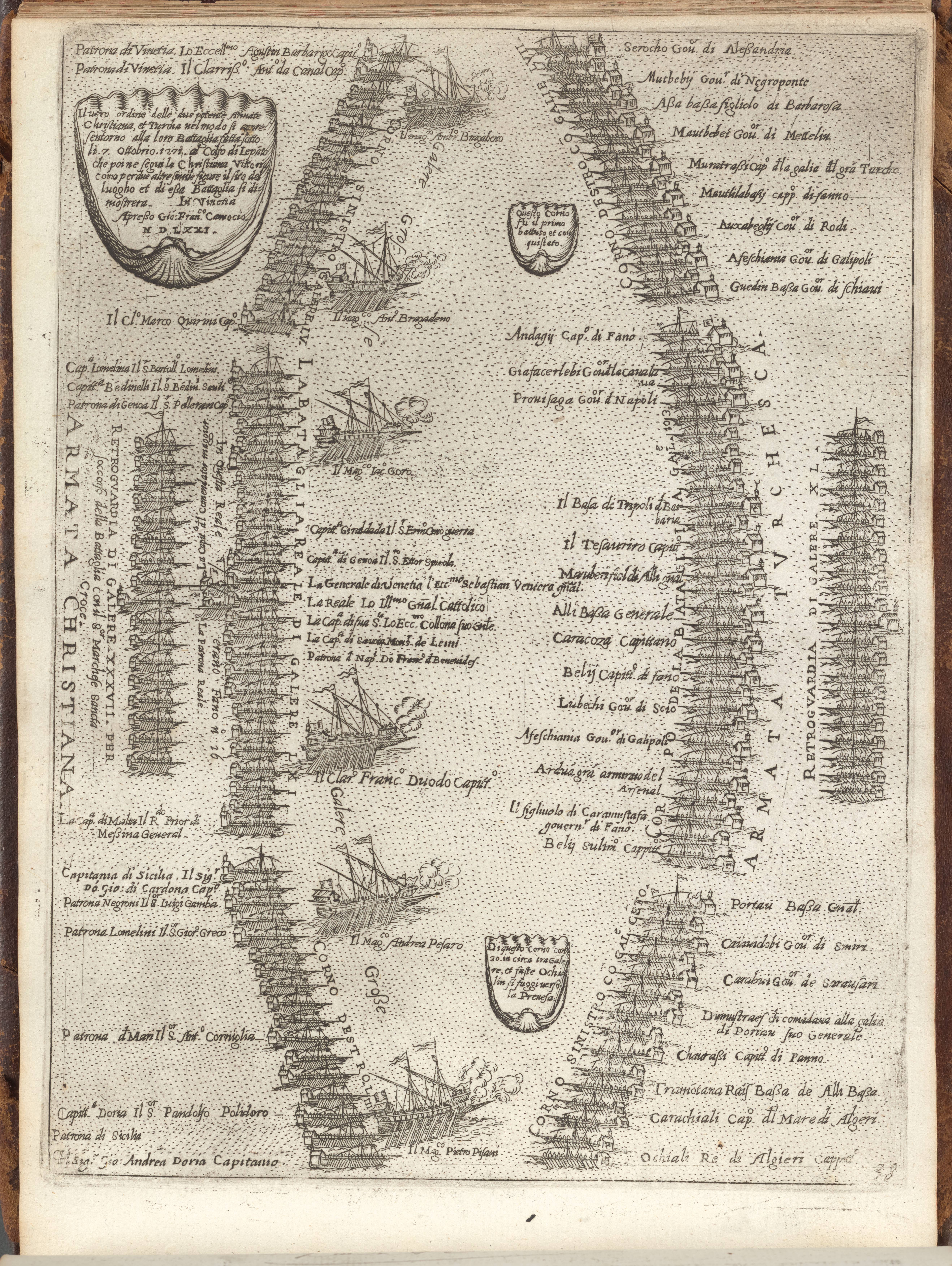 Giovanni Francesco Camocio. Isole famose porti, fortezze, e terre maritime sottoposte alla Ser.ma Sig.ria di Venetia, ad altri Principi Christiani, et al Sig.or Turco, Venice, alla libraria del segno di S.Marco (1574)